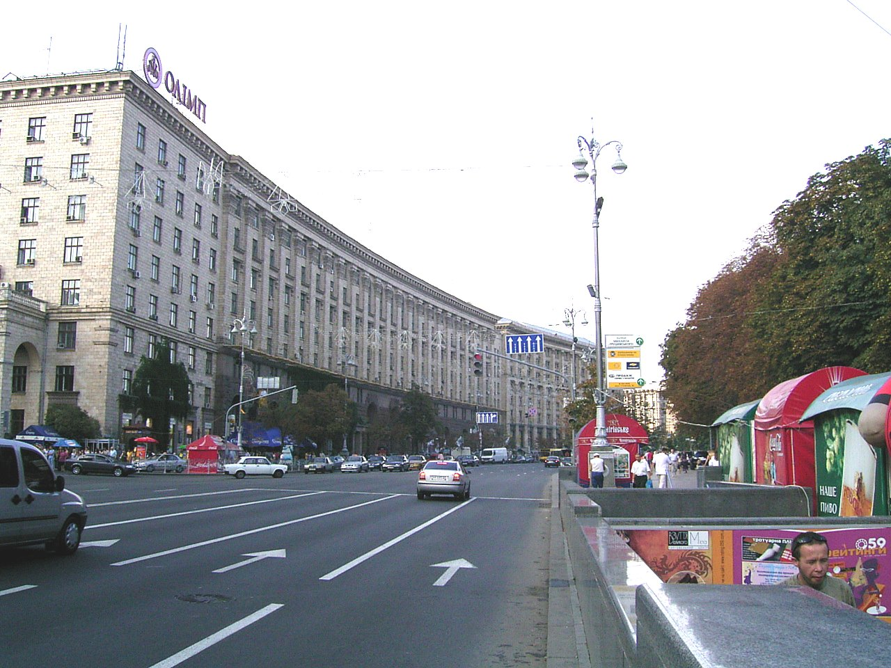 Kreschatik Street, Kiev